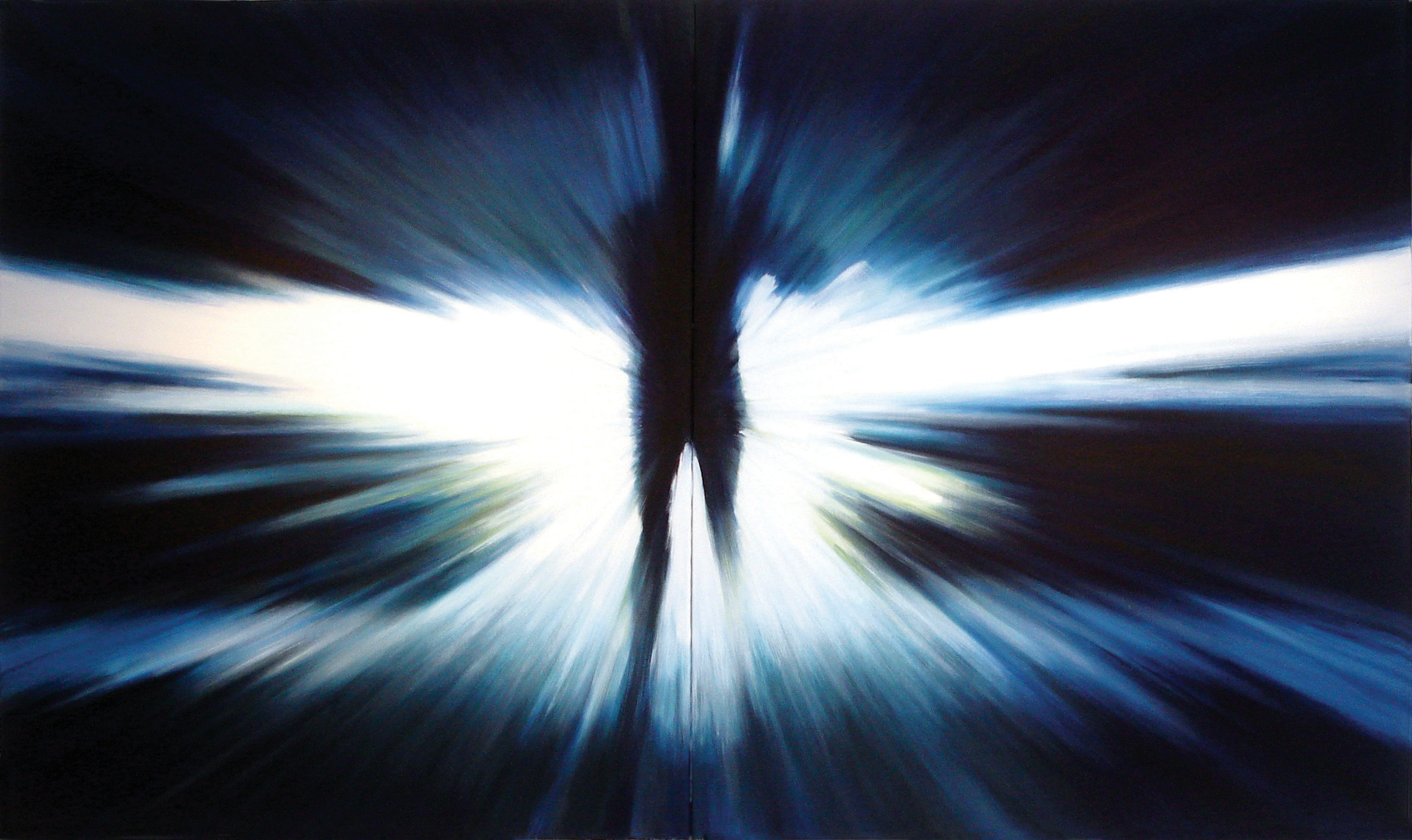 Istvan Kulinyi - Angel